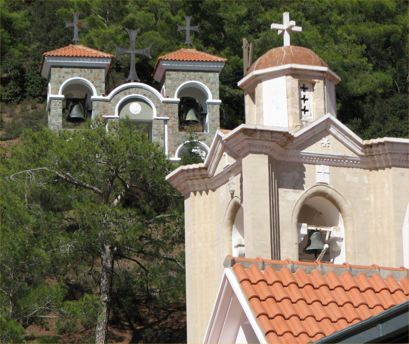 Ancient Byzantine Kykkos Monastery. In the Troodos Mountains (World Heritage Site), Cyprus.